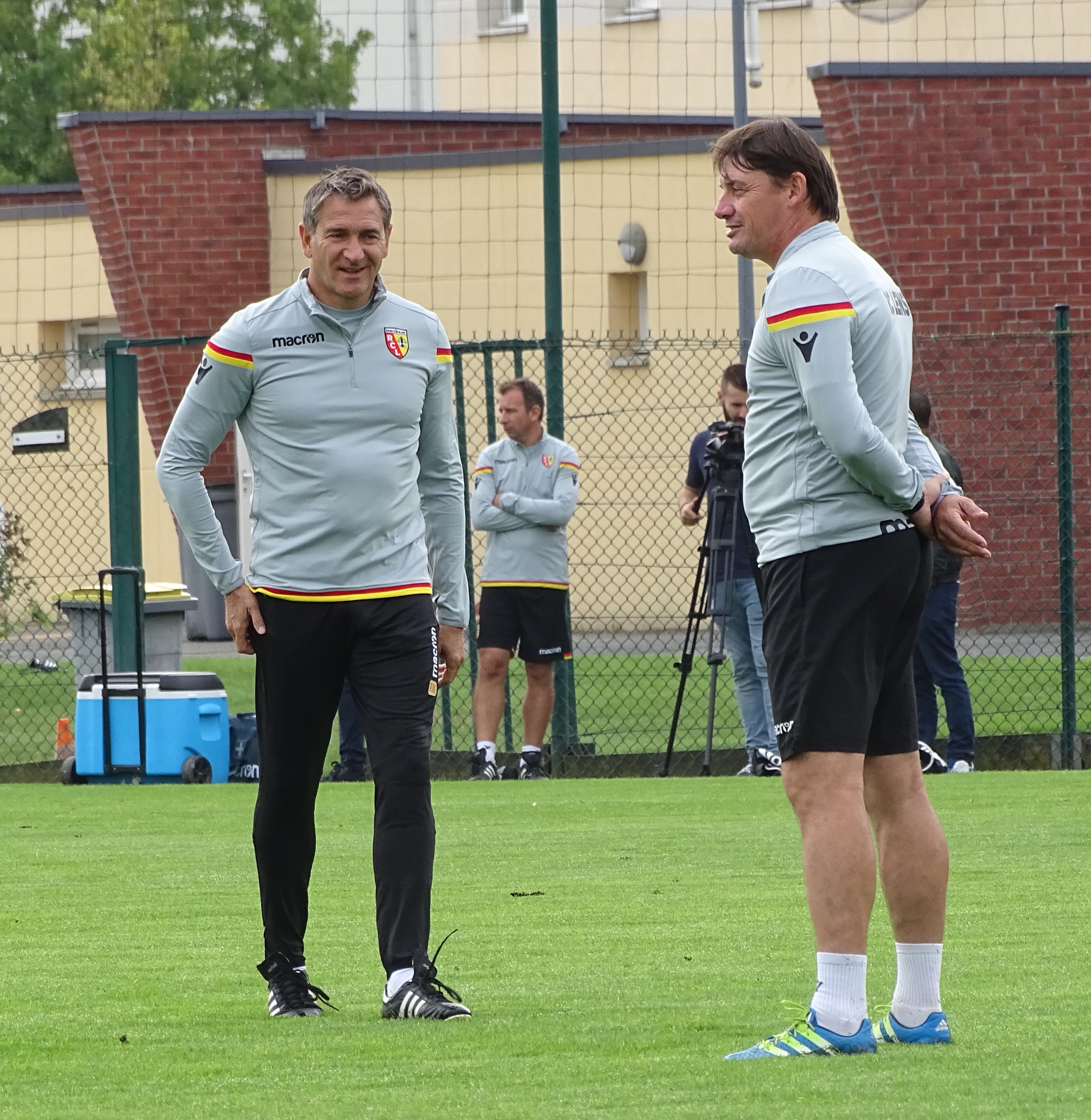 Philippe Montanier & Mickaël Debève (RC Lens 2018)